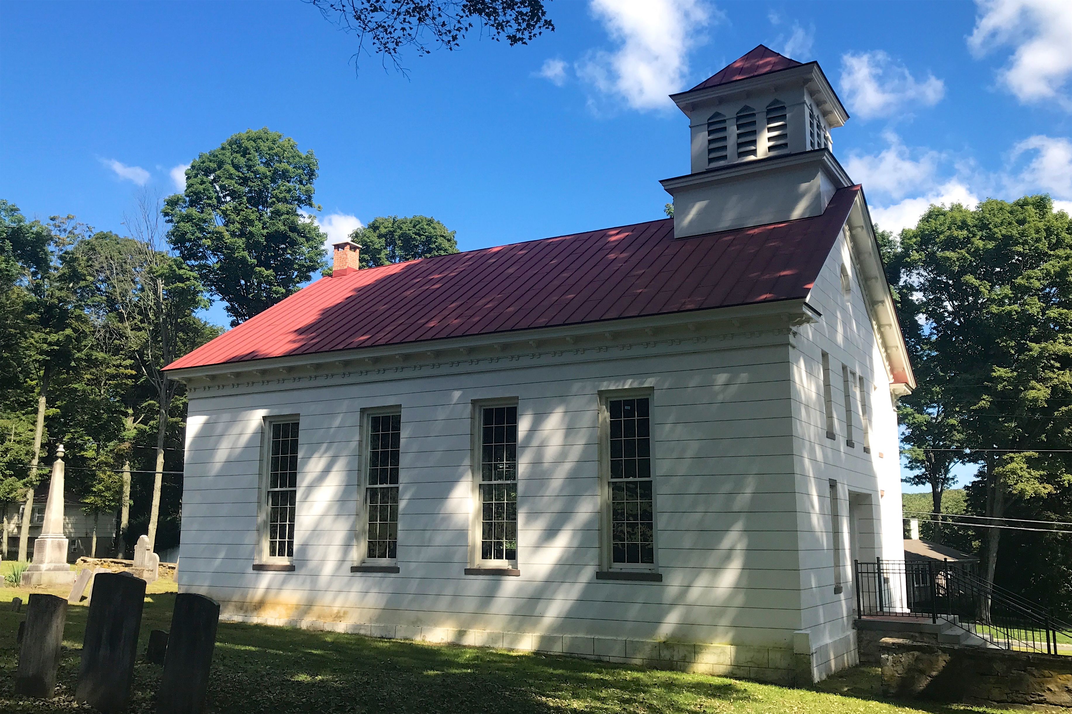 The former Baptist Meeting House in Mount Olive Township, New Jersey. Contributing property of the Mount Olive Village Historic District. Built 1855.